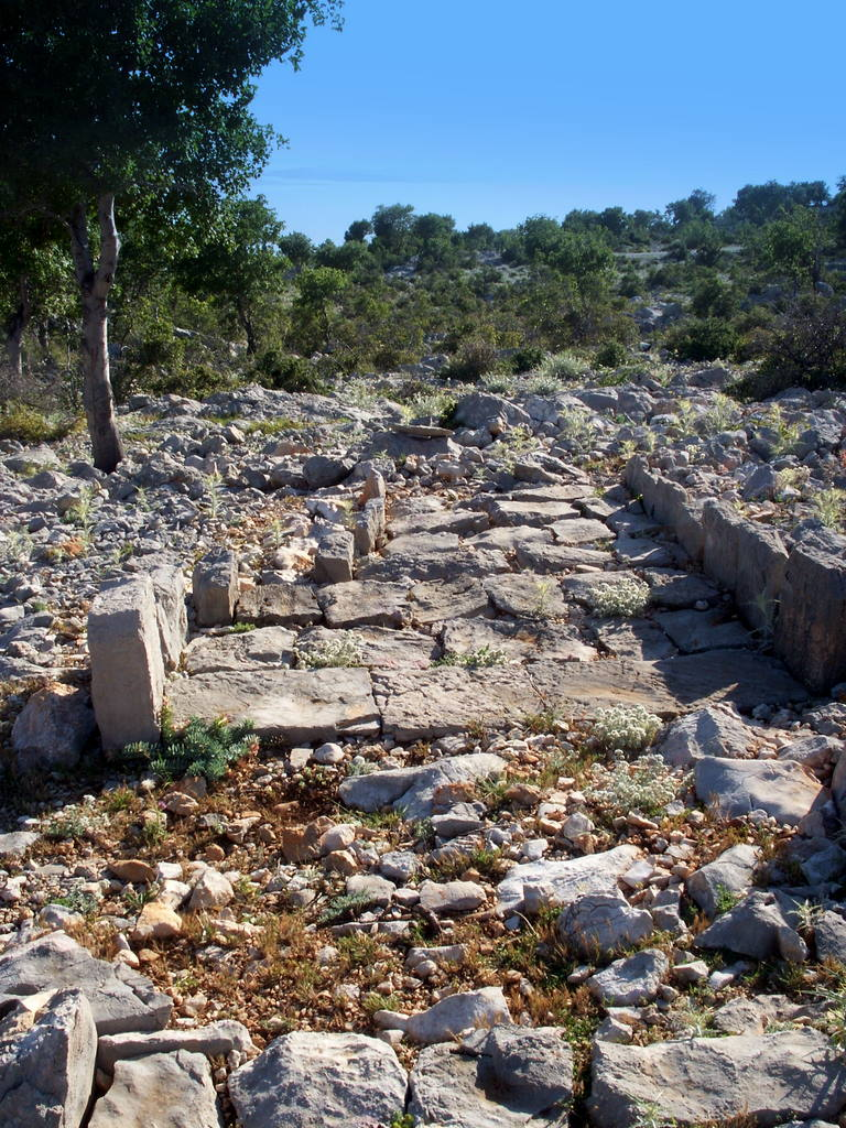 Mirila above Tribanj Kruščica at the Adriatic Highway near Starigrad in the Velebit mountain range in Croatia / Balkans / southeastern Europe.